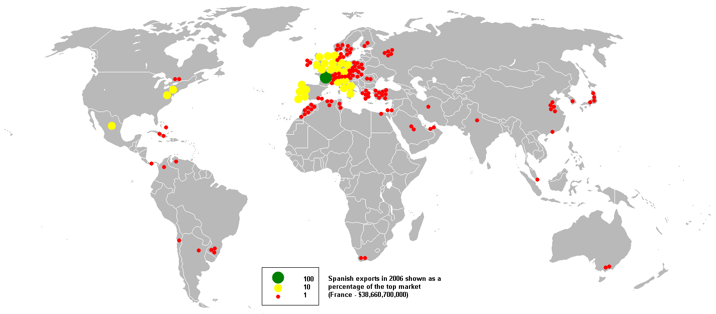 This bubble map shows the global distribution of Spanish exports in 2006 as a percentage of the top market (France - $38,660,700,000). This map is consistent with incomplete set of data too as long as the top producer is known. It resolves the accessibility issues facens.